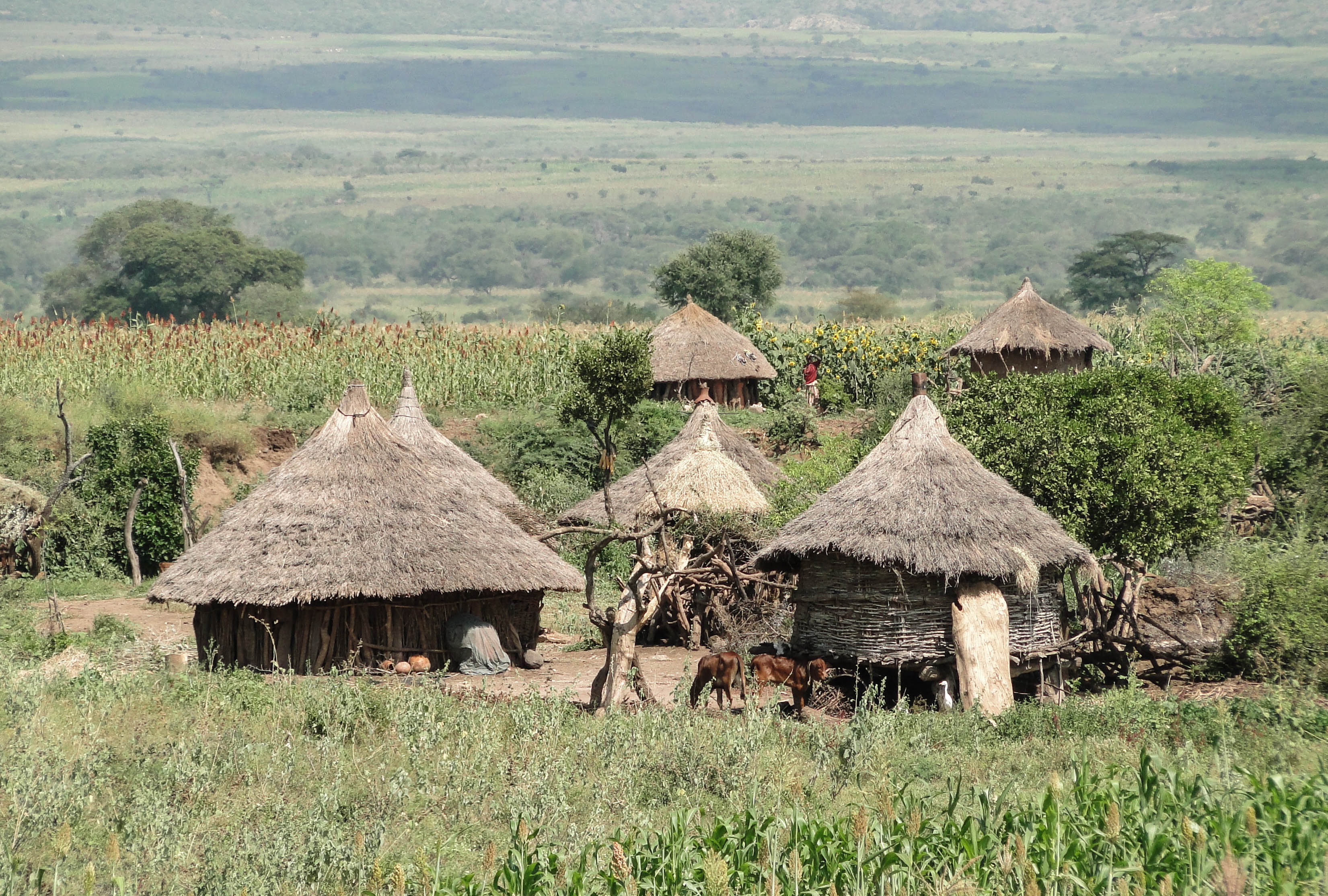 Konso dwellings near the town of Konso, Ethiopia